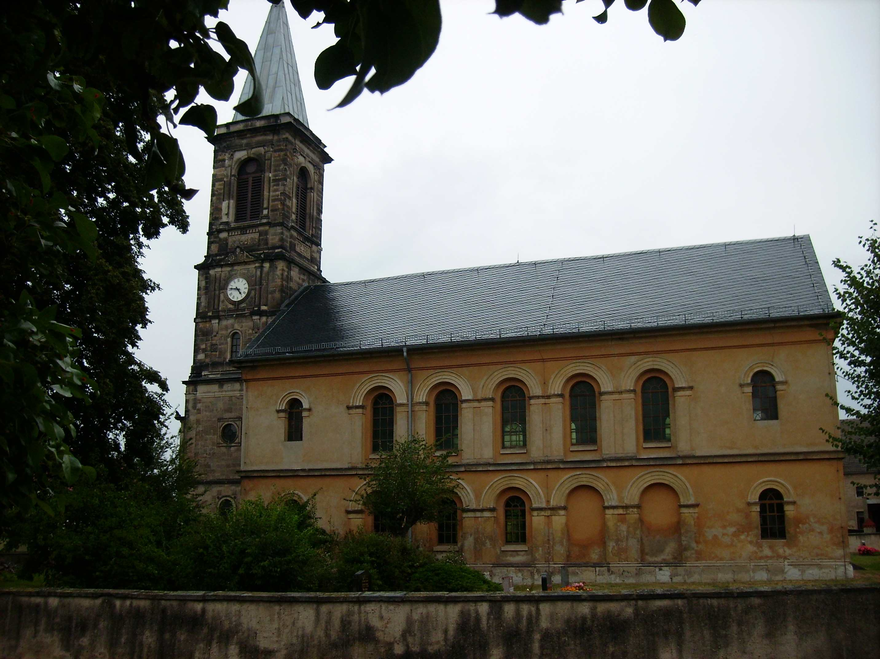 Church of the village of Liebschütz (Liebschützberg, Nordsachsen district, Saxony)